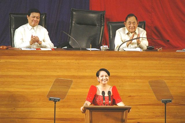 President Gloria Macapagal-Arroyo addressing the Congress during her Seventh State of the Nation Address on July 23, 2007.